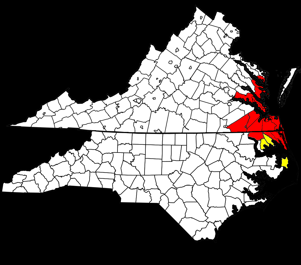 Map Highlighting the Hampton Roads Extended Area Red: Virginia Beach-Norfolk-Newport News, VA-NC MSA Red+Yellow: Virginia Beach-Norfolk, VA-NC CSA